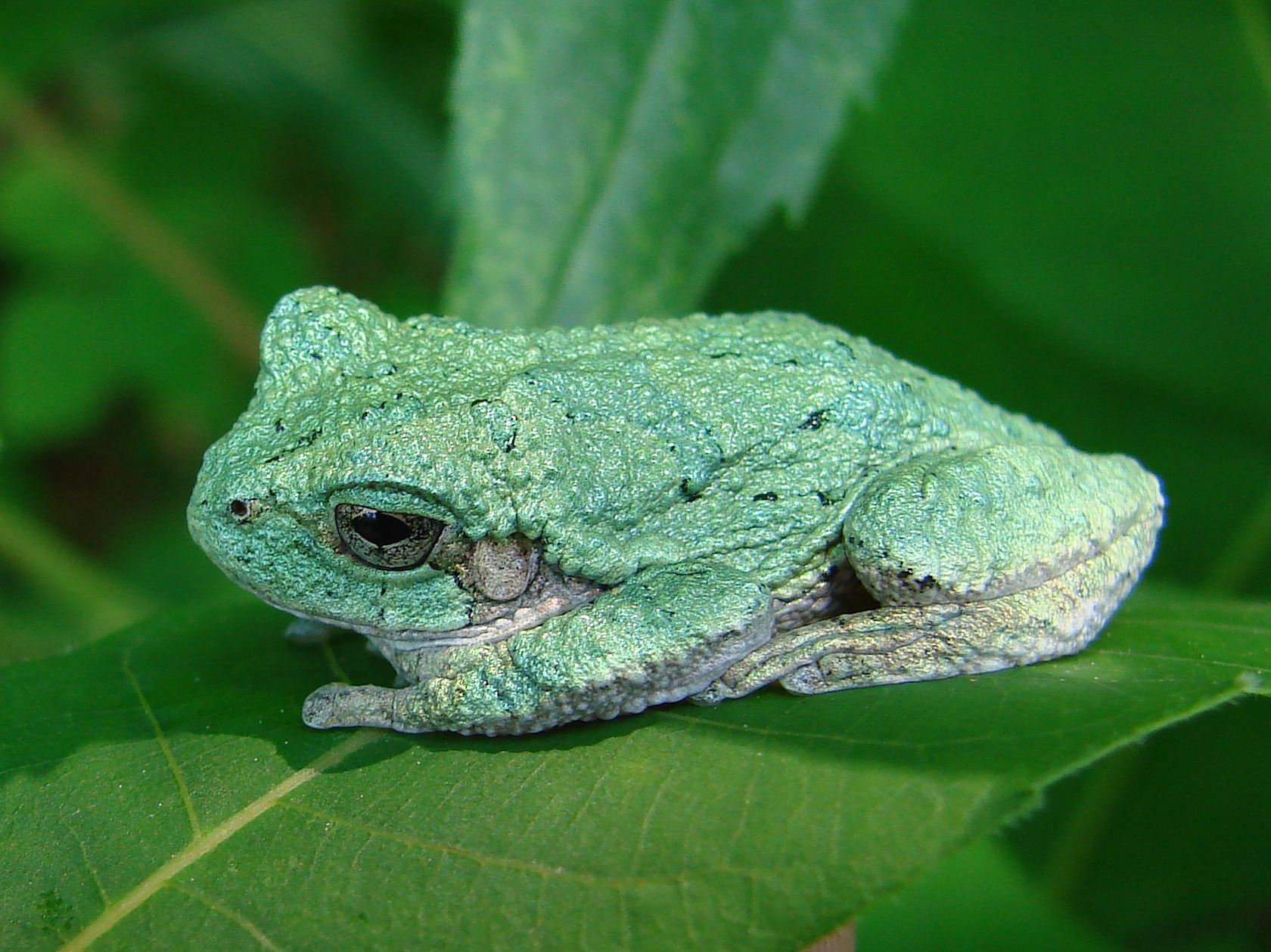 Hyla chrysoscelis - Cope's Grey Tree Frog - Cross Plains, WI, USA